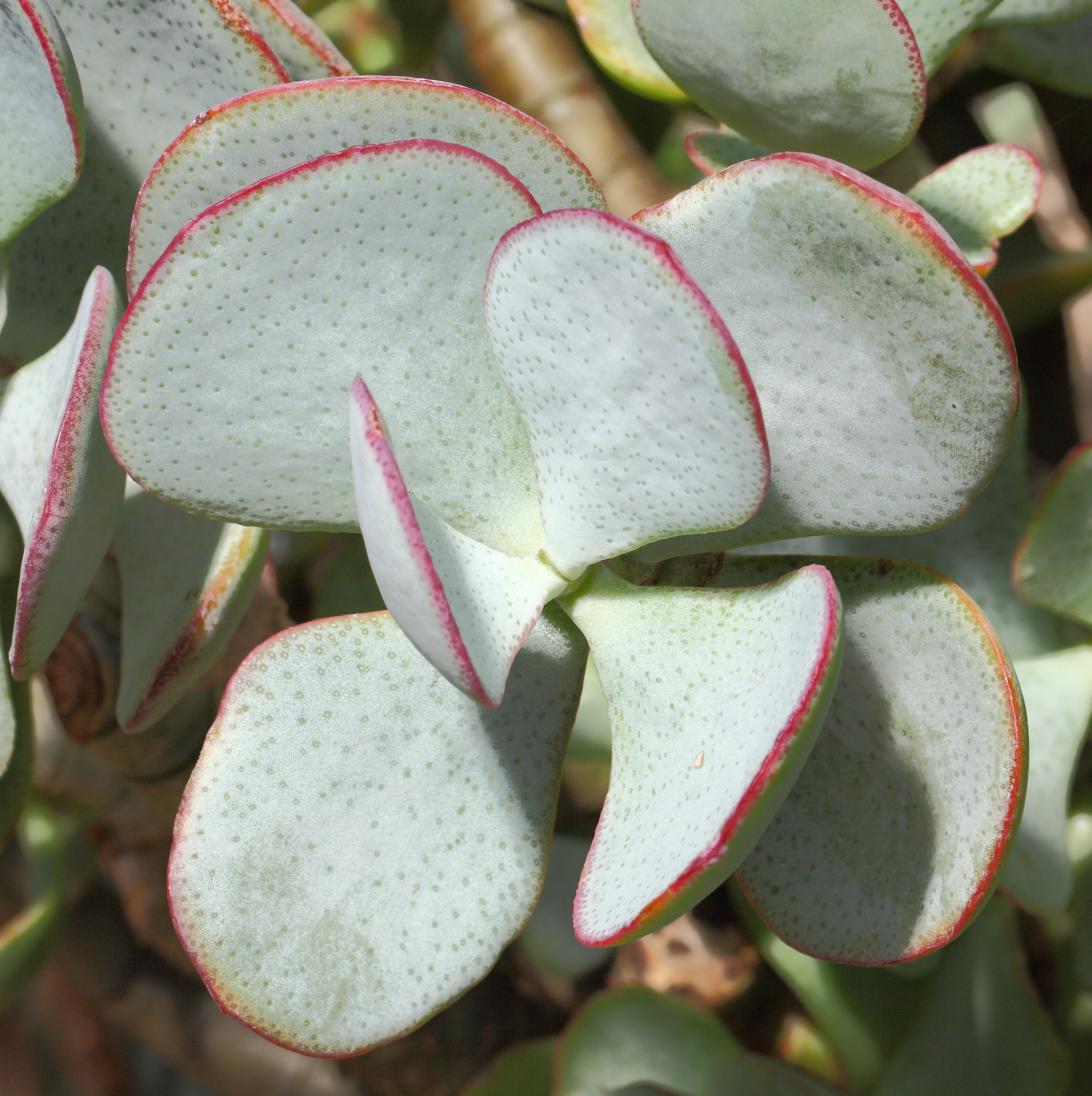 Crassula arborescens, Botanic Garden, Munich, Germany